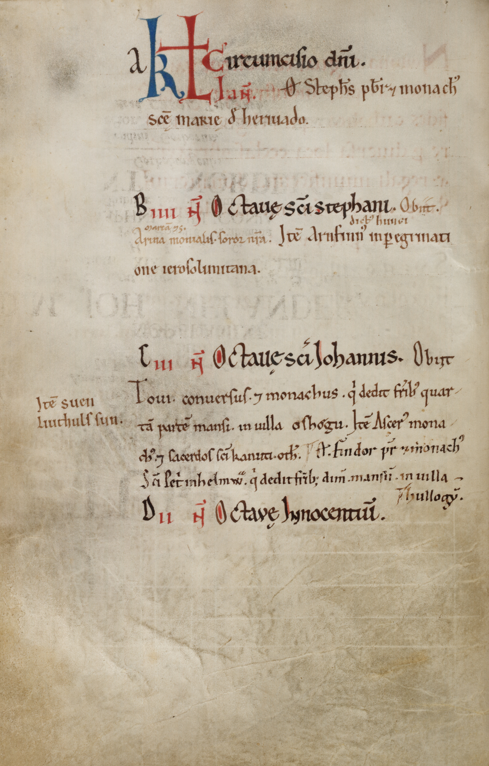 First page (fol f 124 v) of the "Memoriale fratrum" in Necrologium Lundense, a medieval codex from Lund Cathedral begun during the 1130s. The pages contains notes for January 1st-4th.